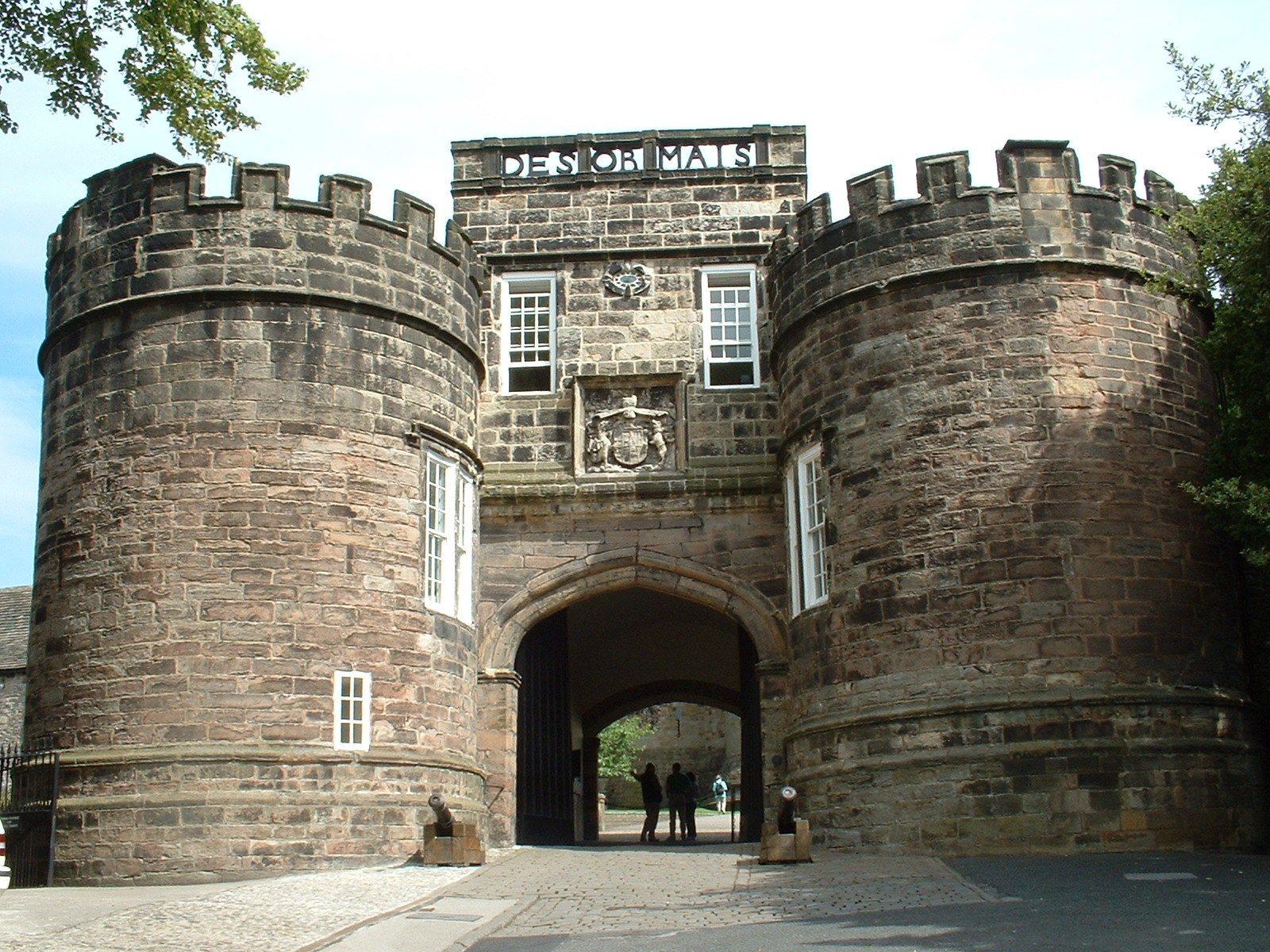 The gatehouse of Skipton Castle